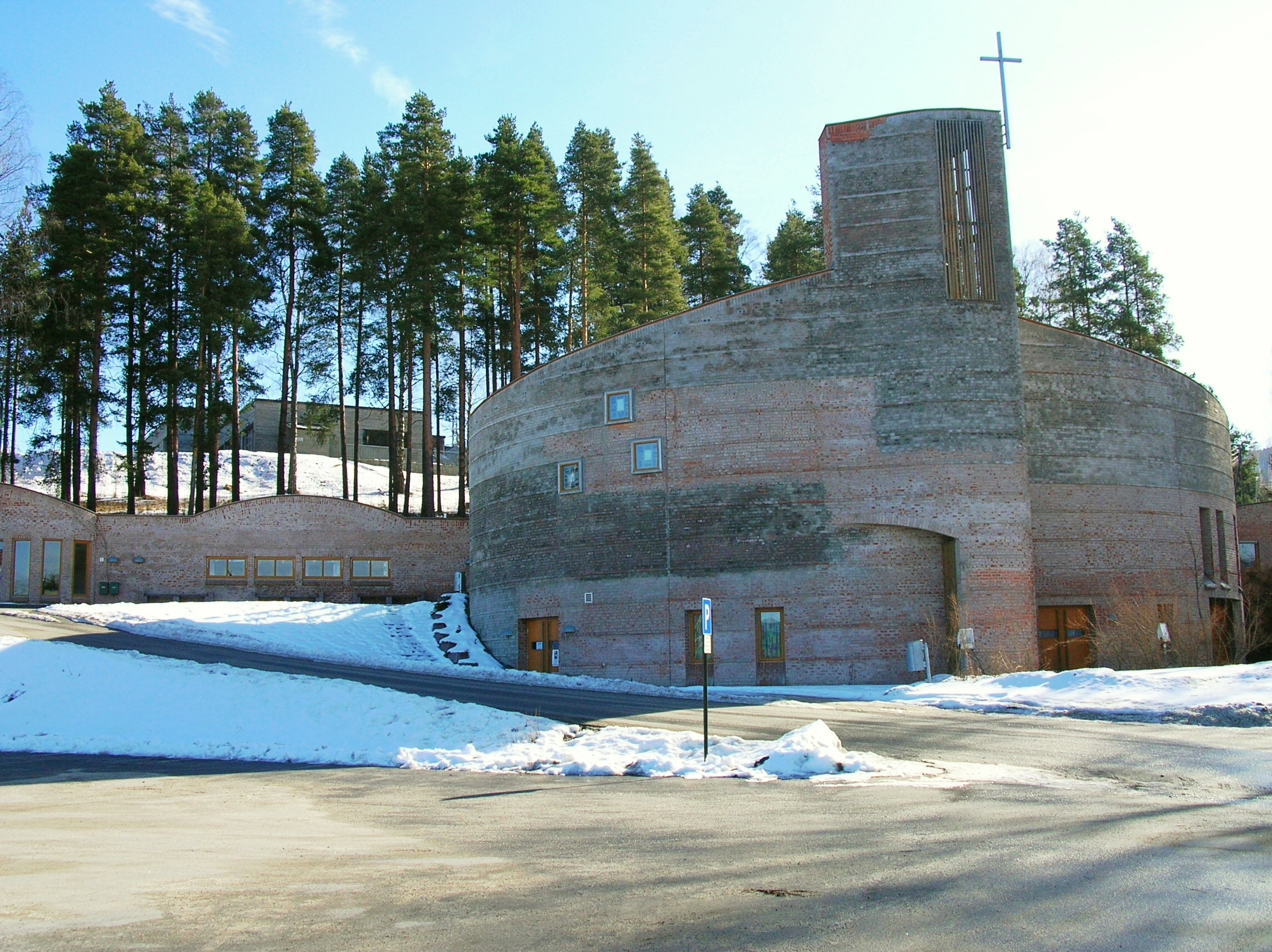 Åmot kirke i Modum, Buskerud (Aamot Church of Modum in Buskerud, Norway)